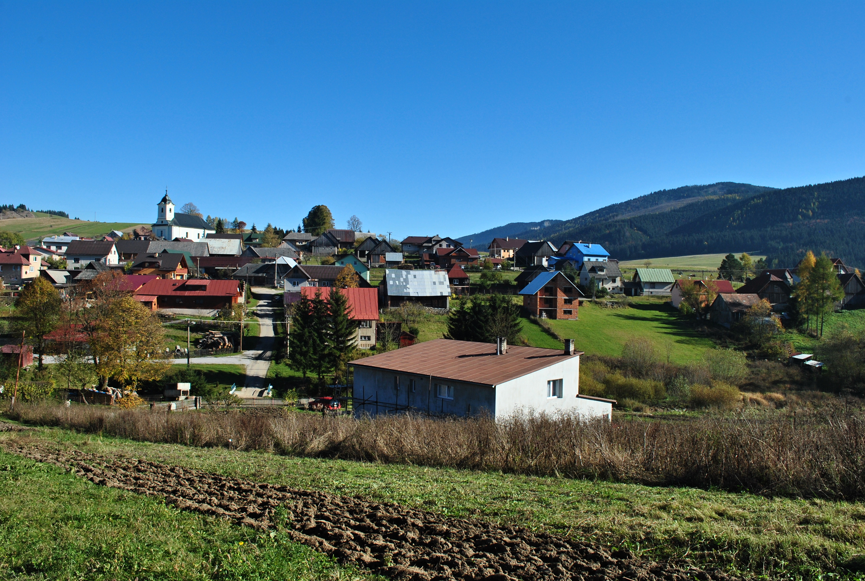 Malatiná, Dolný Kubín district, Slovakia - general view